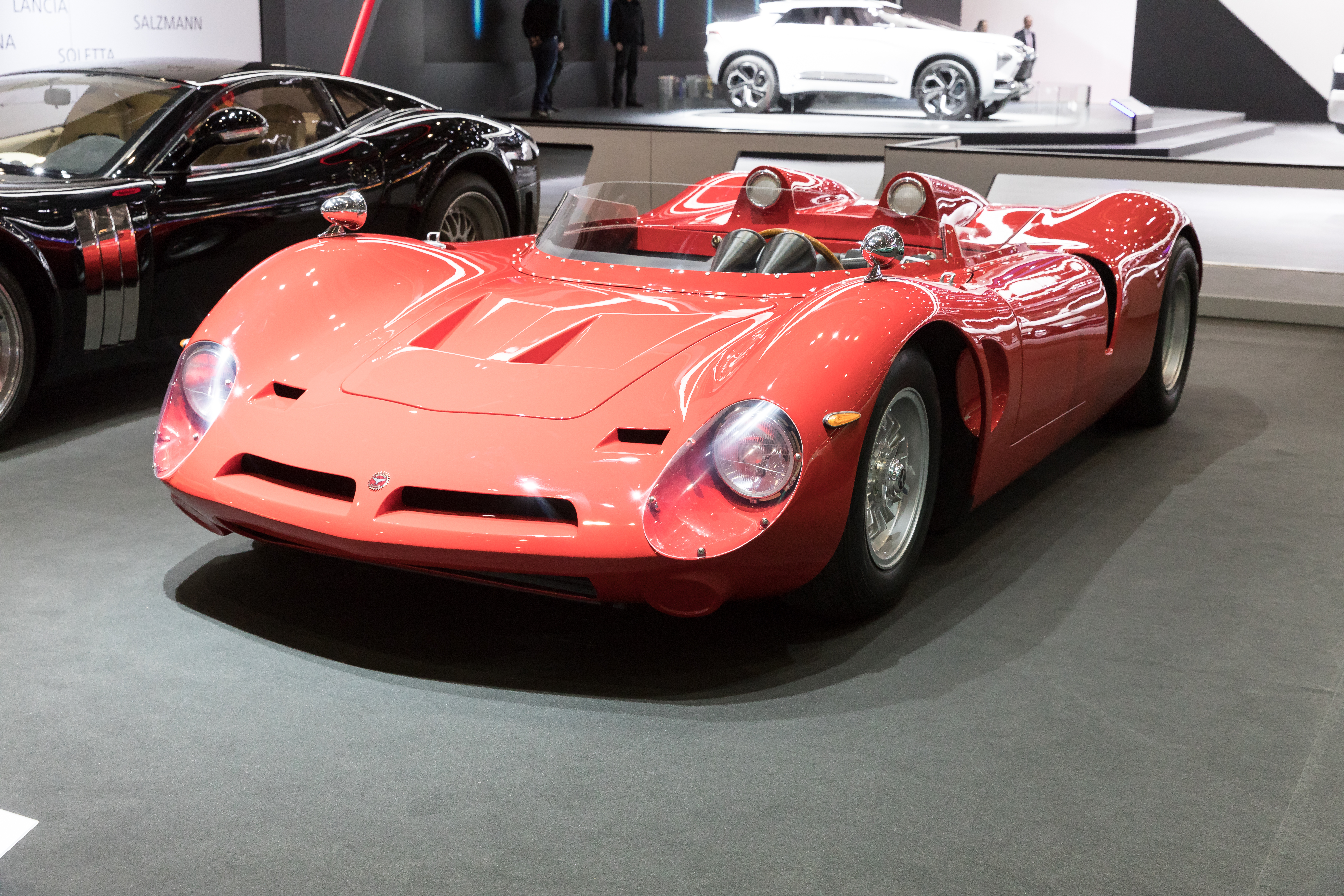 Geneva International Motor Show 2018